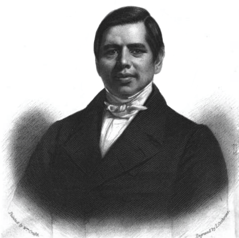 Portrait of Peter Jones